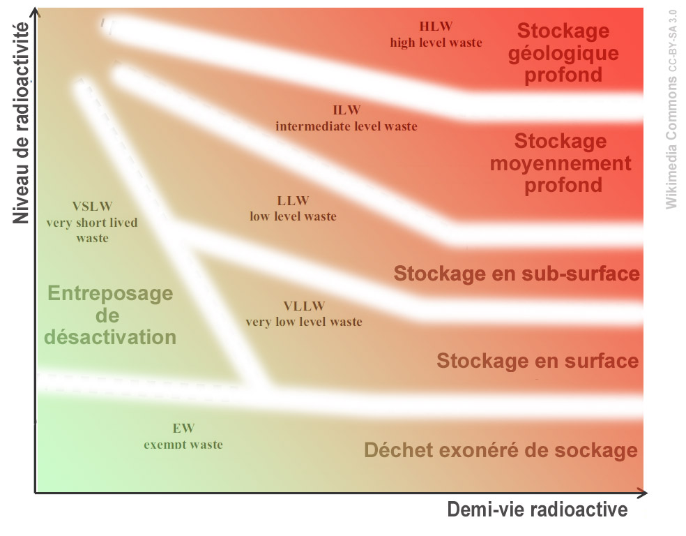 nuclear waste classification scheme